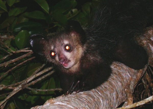 Aye-aye (Daubentonia madagascariensis)